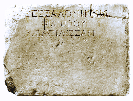 Inscribed base of a statue of Thessaloniki, of the 2nd c. B.C., found in the area of the ancient Agora and part of a group of statues of the family of Alexander the Great. Inscription: ΘΕΣΣΑΛΟΝΙΚΗΝ ΦΙΛΙΠΠΟΥ ΒΑΣΙΛΙΣΣΑΝ